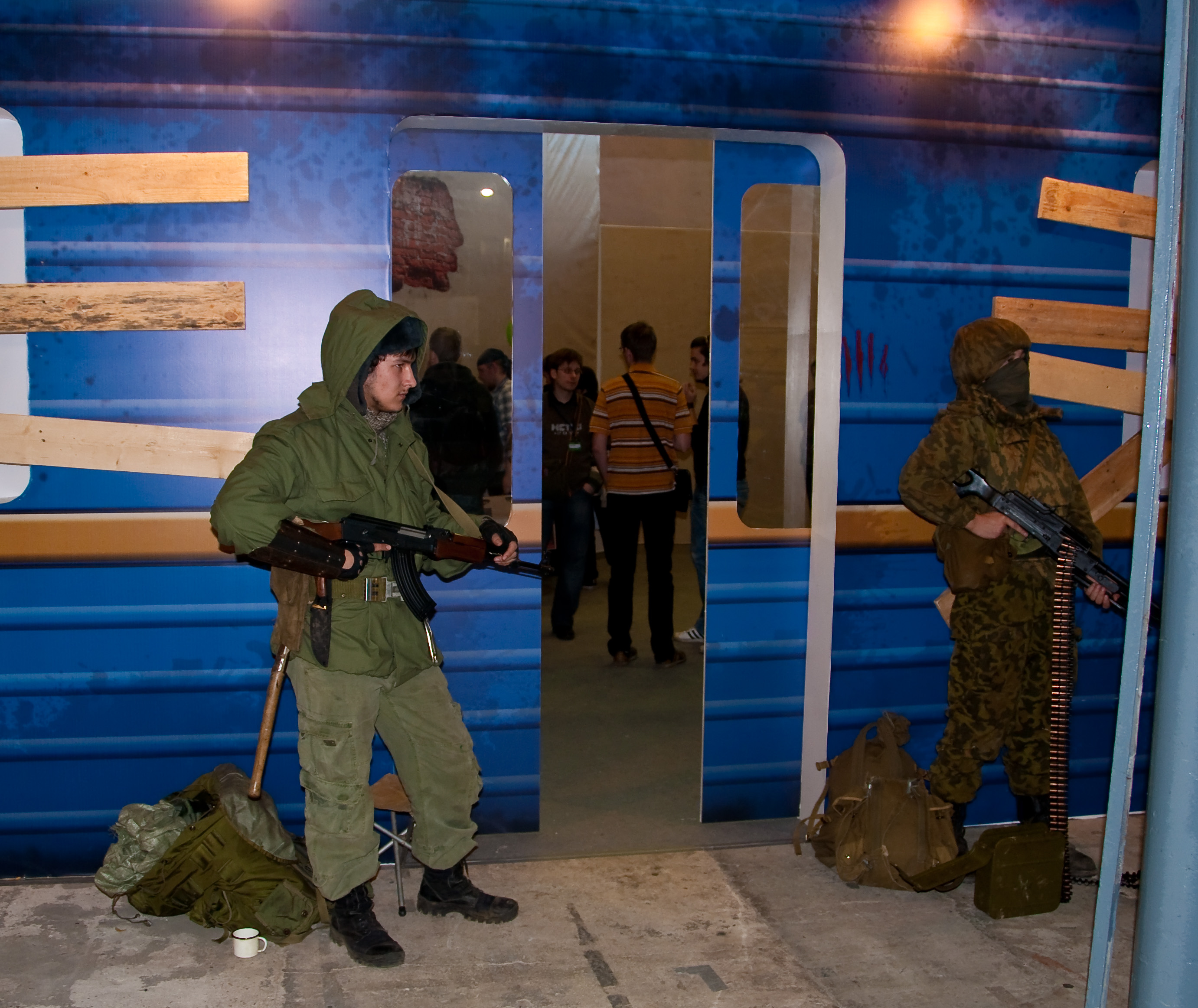 Taken on November 5, 2009 Ostankinskiy, Moskva, RU Nikon D40X